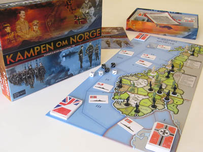 Game box and contents for Kampen om Norge (The Battle for Norway) game.